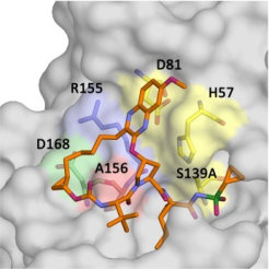 Surface representations of the wild-type protease in complex with Grazoprevir. The catalytic triad is shown in yellow and the R155, A156 and D168 side chains are highlighted in light-blue, pale-green and red, respectively